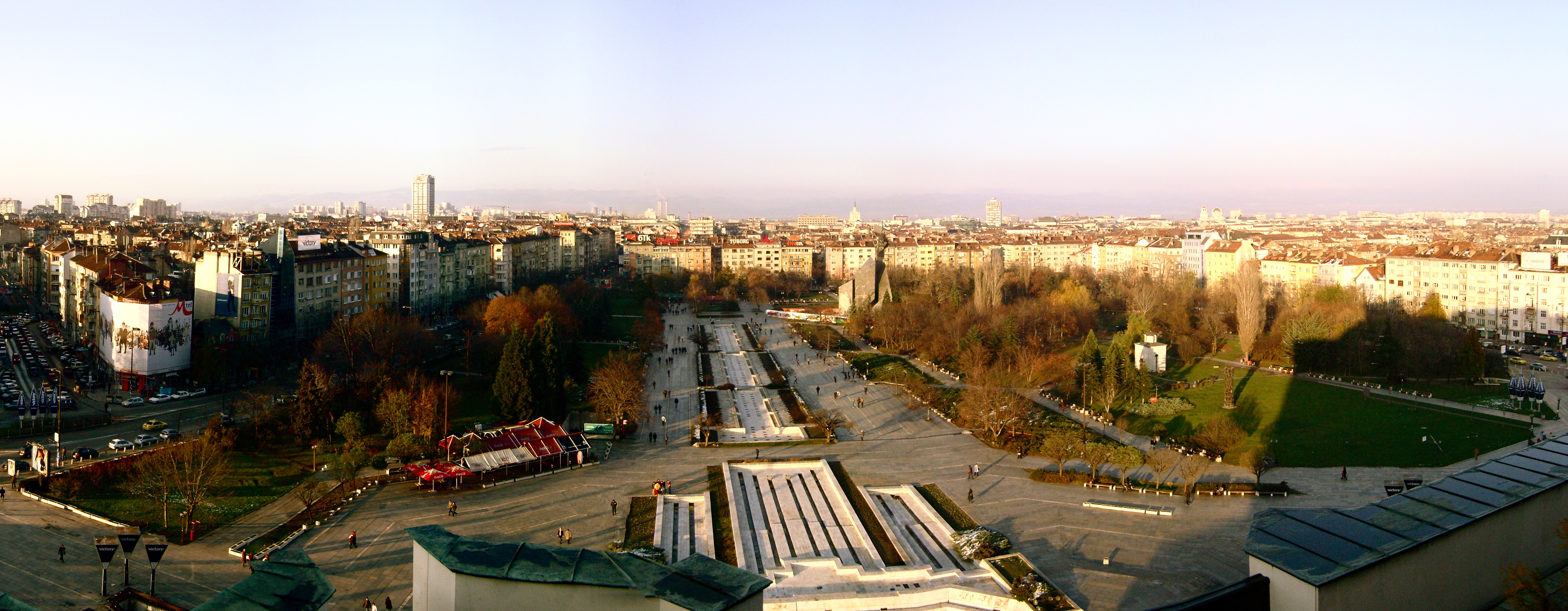 Panorama of the city of Sofia from the top of the National Palace of Culture